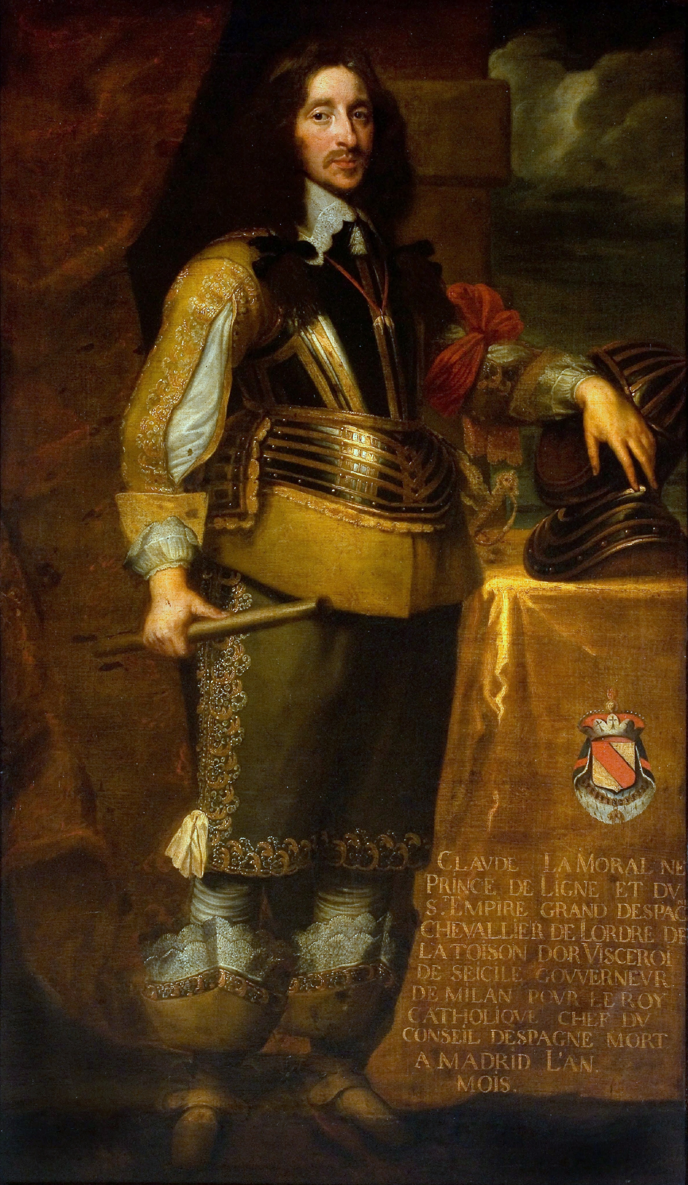 Spanish or Flemish School